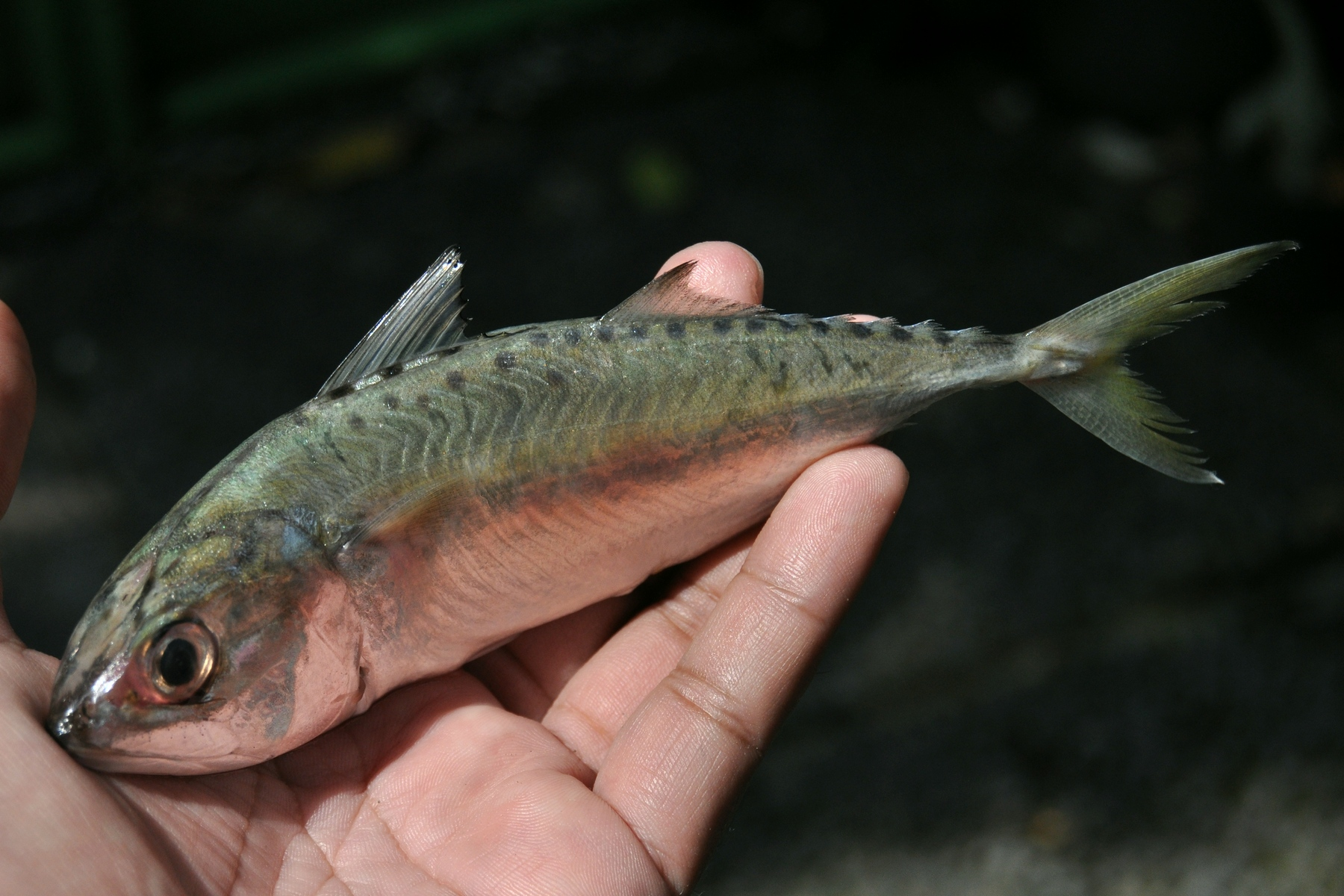 Short mackerel Rastrelliger brachysoma, 145 mm fork length. Tilted dorsal view. From Bogor market, West Java,Indonesia.